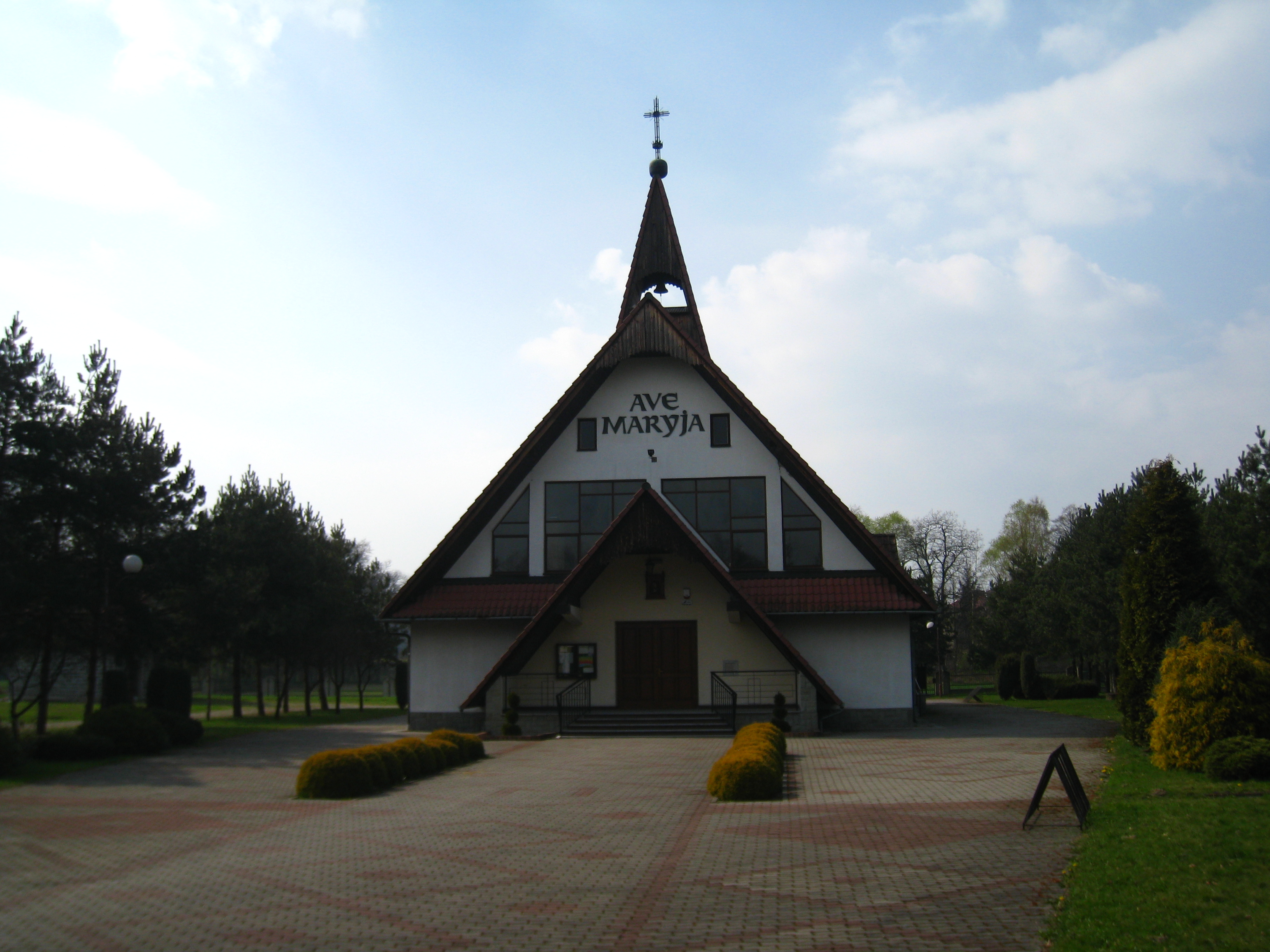 Church in small village Zasole, south from Auschwitz PL